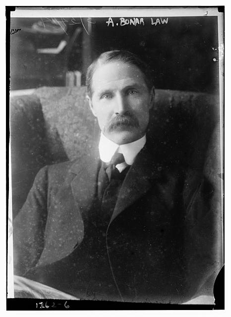 Andrew Bonar Law portrait